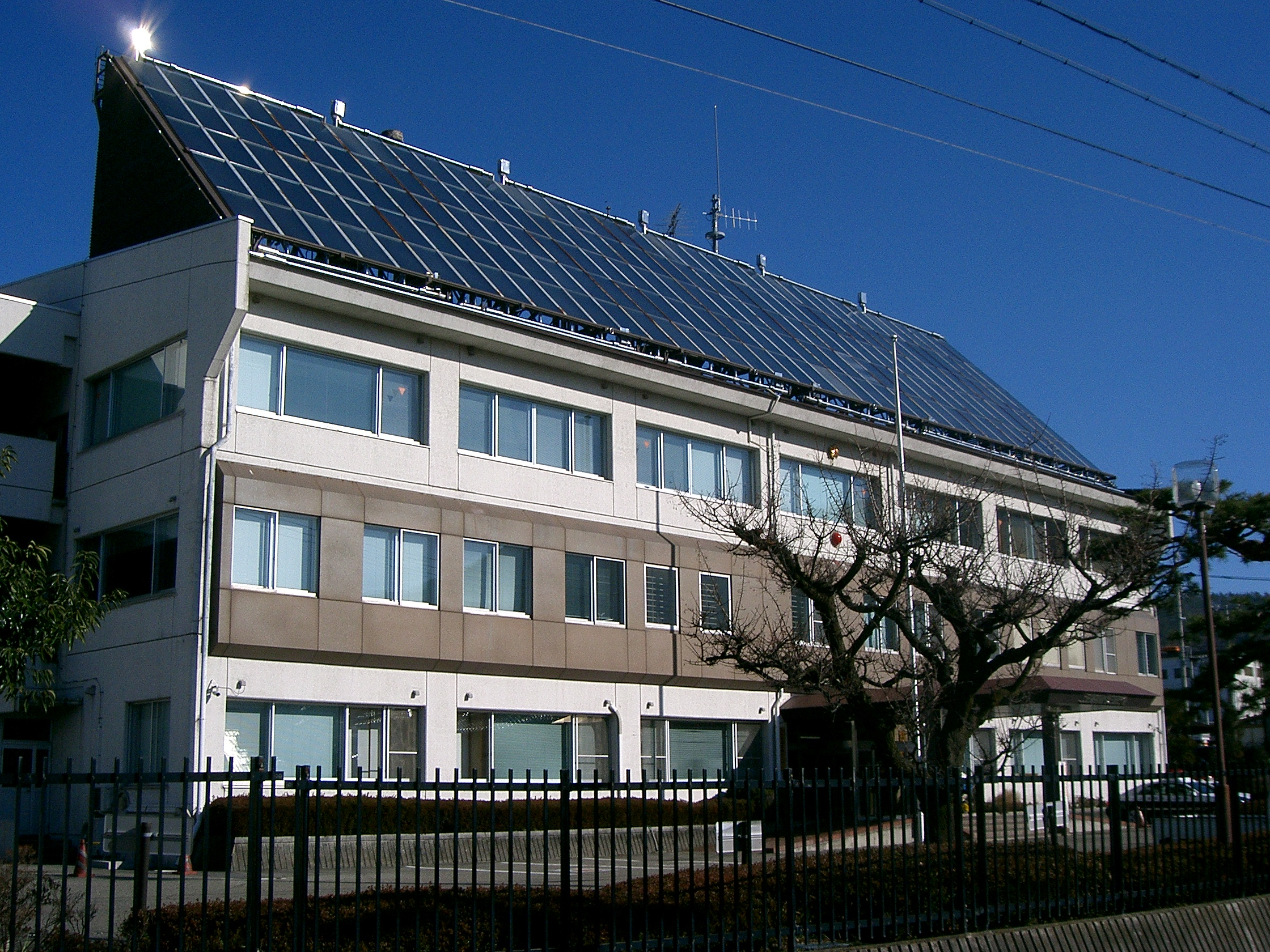 Ueda Police Station Yodakubo Office (former Maruko Police Station)